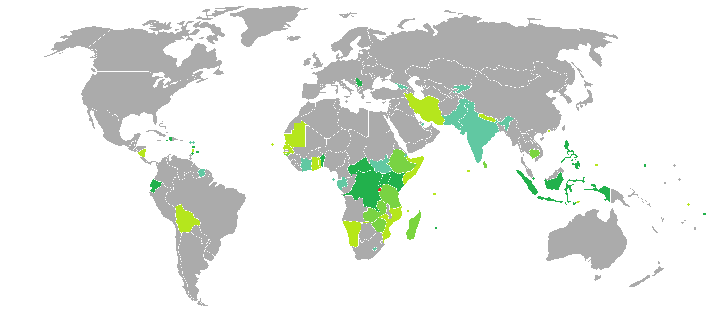 Visa-free & VOA for Burundians